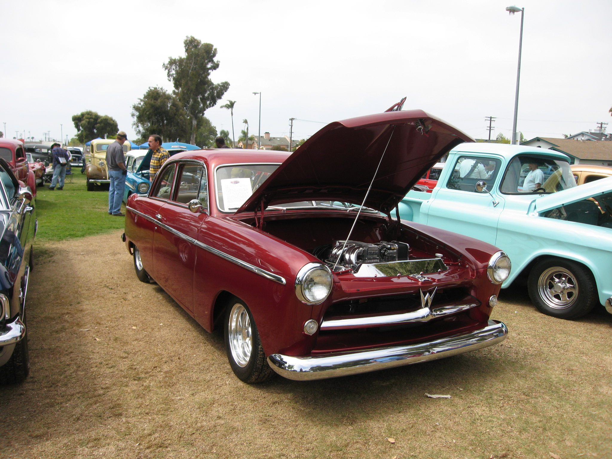 Customized 1952 Willys Aero Ace 2-door sedan, San Diego, CA. "William Tell", owned by Ed Snell. 354 engine, GM 700R4